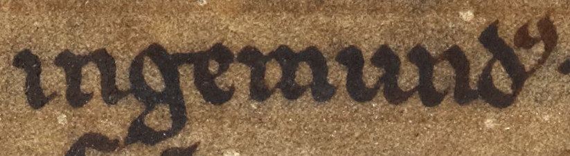 An excerpt from folio 34r of Cotton MS Julius A VII (the Chronicle of Mann). The excerpt reads in Latin "Ingemundus". The excerpt concerns Ingimundr (died 1097).